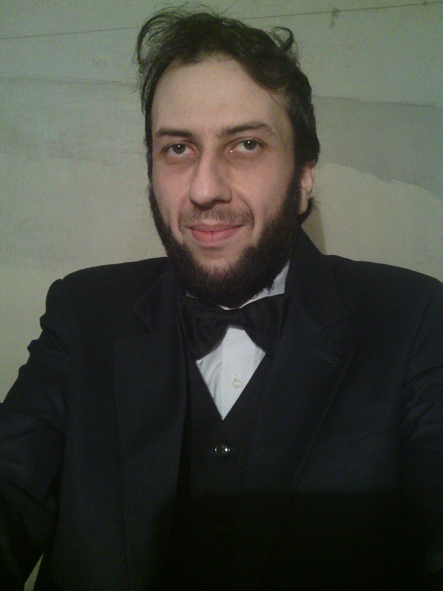 Codrin Stefan Tapu, psychologist and author